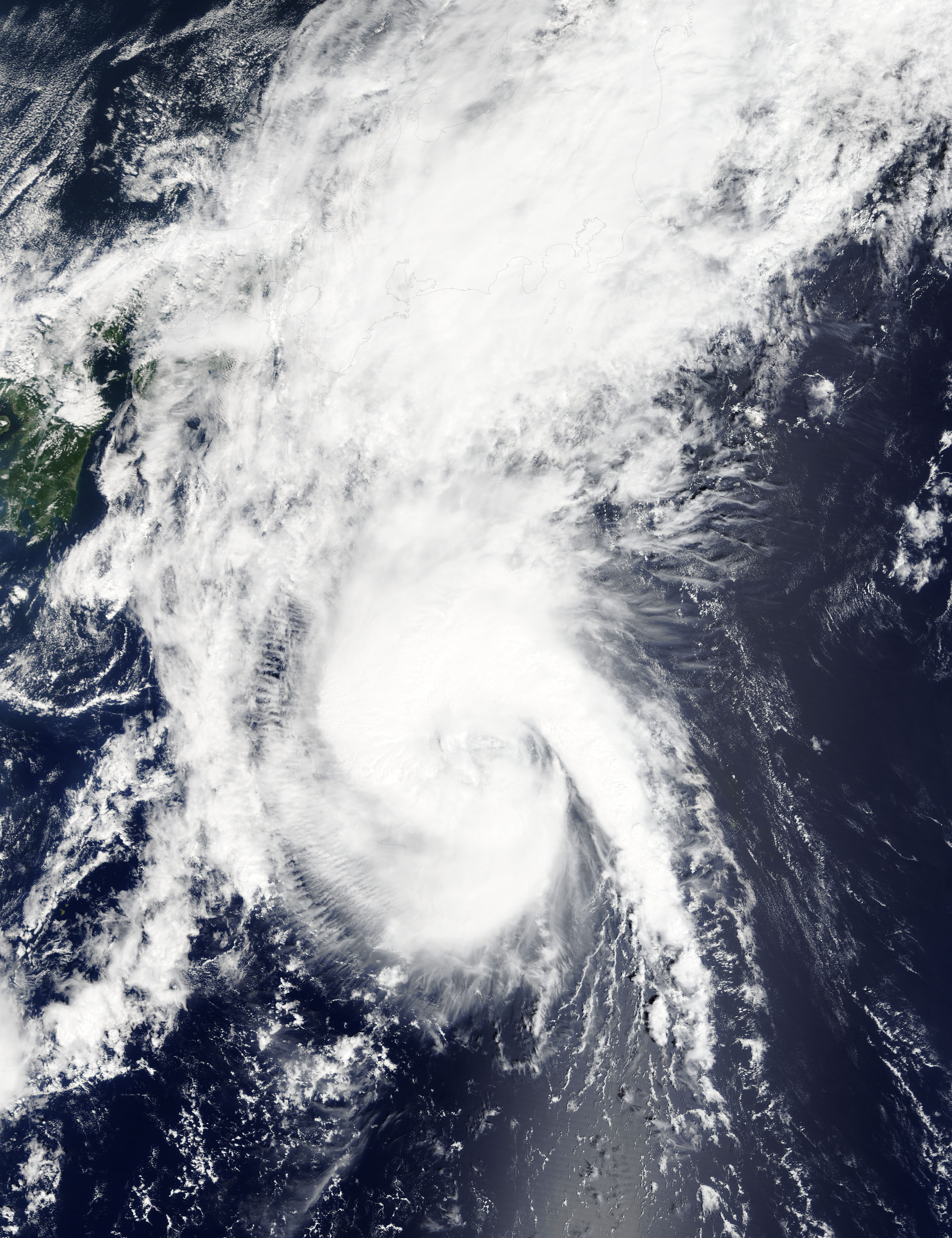 Tropical Storm Etau (18W) approaching Japan